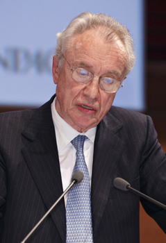 Picture of Giovanni Bazoli, as 2011 chairman of the supervisory board of Italian bank Intesa Sanpaolo